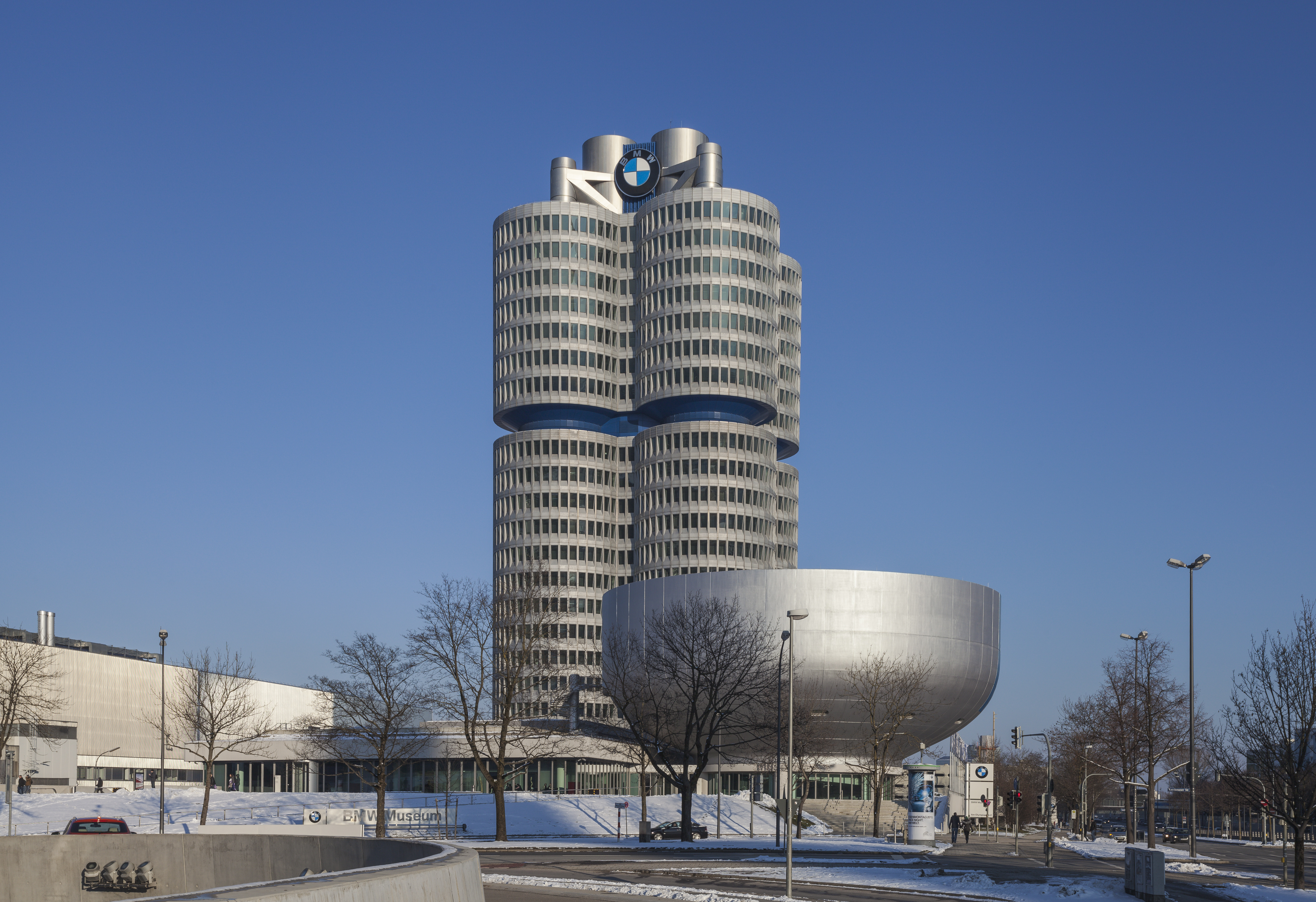 BMW 4 Cylinders, Munich, Germany